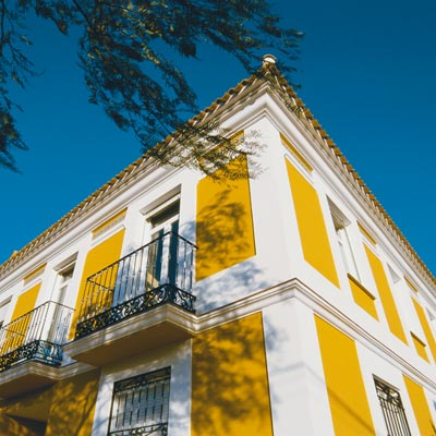 Algicid and fongicid paint